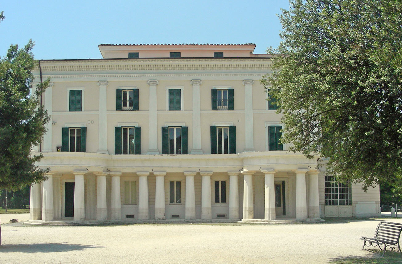 Rome, Villa Torlonia, Casino nobile, north-west side